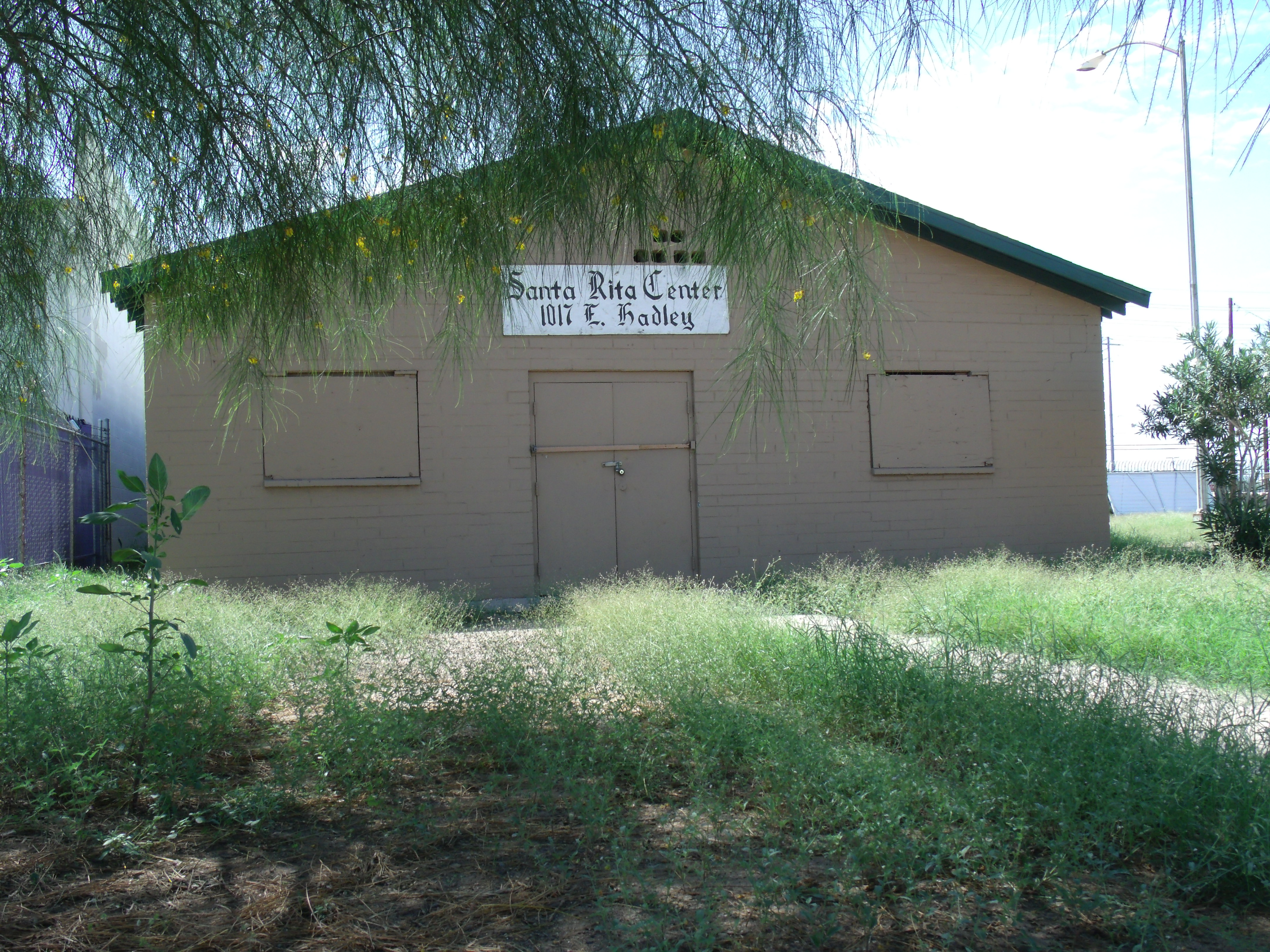 This is the historic Santa Rita Center (also called Santa Rita Hall) building located between 10th street and place and Hadley street. It was where Arizona native Cesar Chavez started his 24-day hunger strike on May 11, 1972, to draw attention to the inhumane conditions farm workers endured in the fields. Coretta King met Chavez in the hall during his fast. For a while, the hall became the headquarters of what became the United Farm Workers of America Union. The structure was built in 1962 and is list as historical in the Phoenix Register of Historical Places.